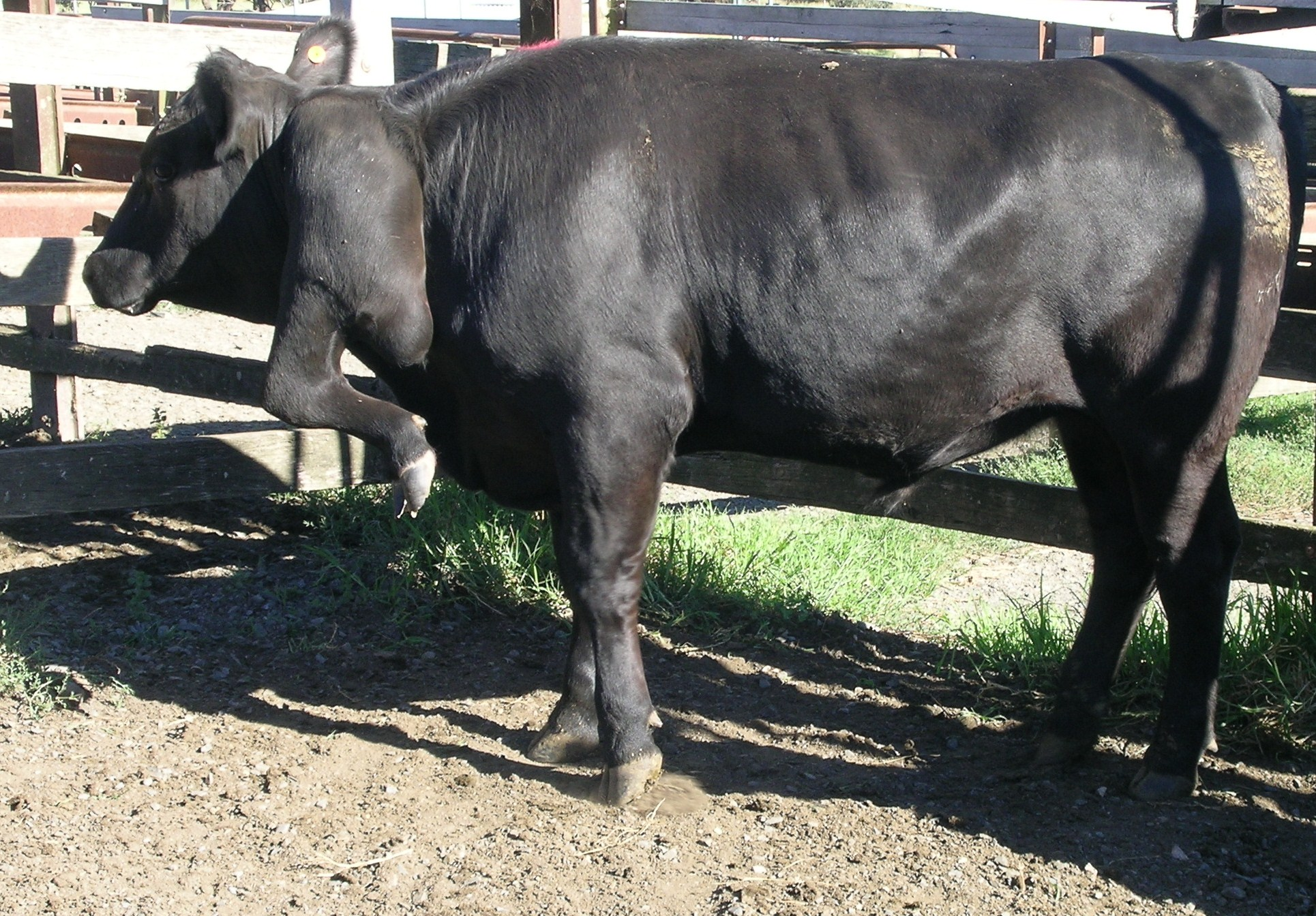 Five legged, grown steer, that appeared normal in all other respects, Northern Tablelands, NSW. The fifth leg had three claws on the foot.